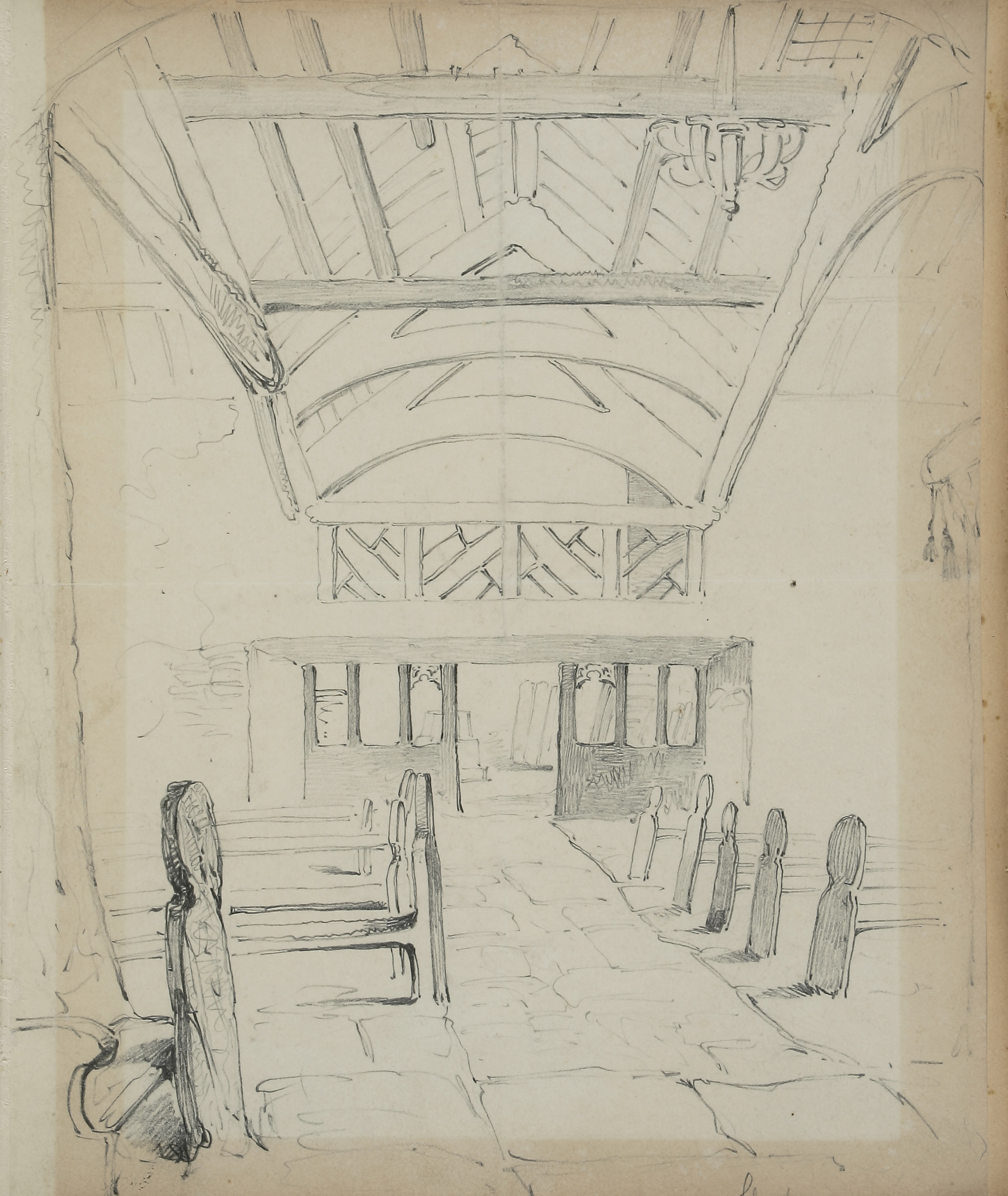 Interior of Nant Peris church, situated in the village of the same name, approx two miles from Llanberis in North Wales. Pencil on paper; 222 x 275mm Inscr. br.: Llanberris [sic.] Accession = BIRSA:2007X.521 From the Lines family sketchbook, in the collection of the Royal Birmingham Society of Artists, Birmingham, England. See Rediscovering the Lines Family - Exhibition catalogue - 2009.